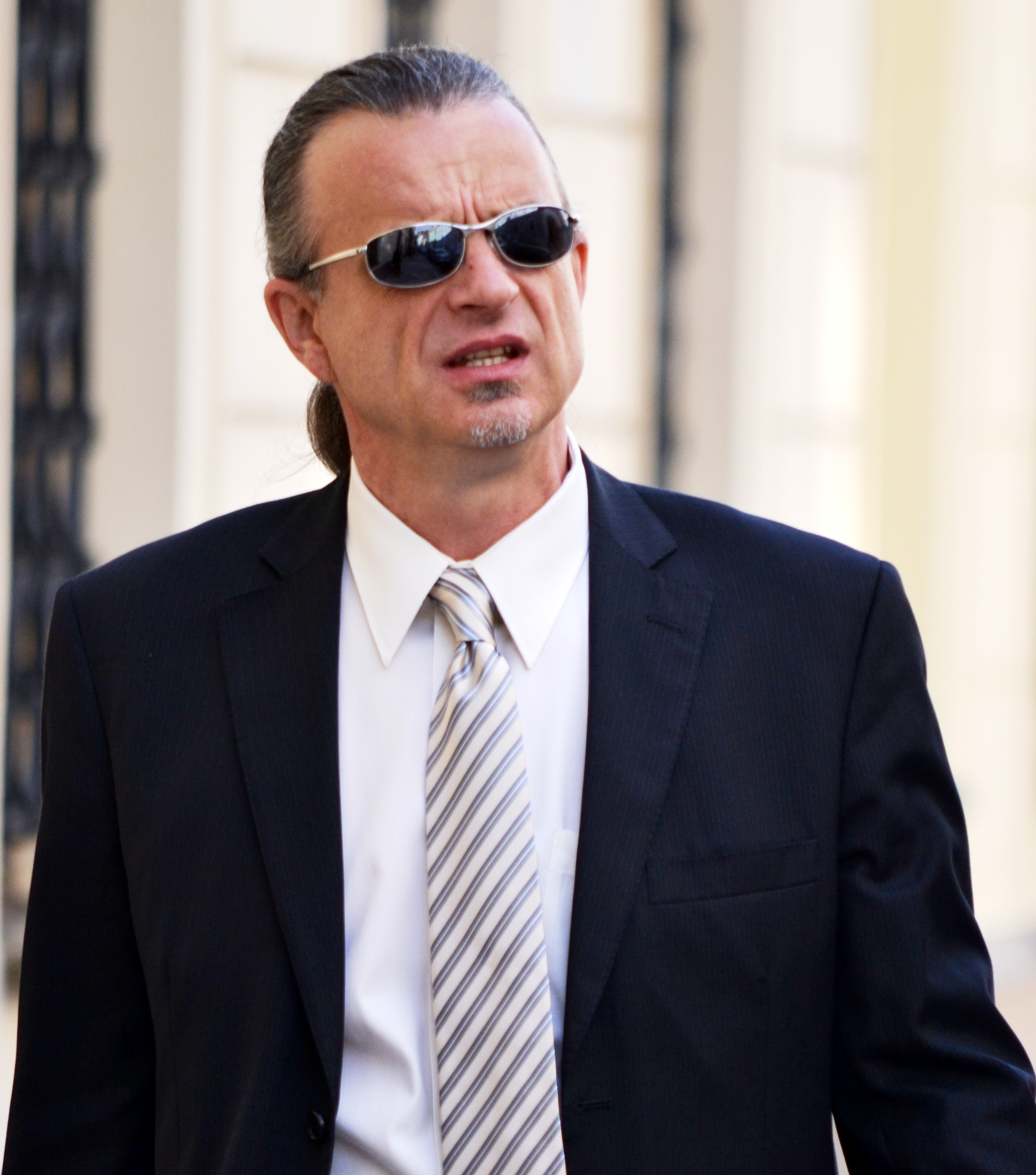 Otto Chaloupka, Member of the Czech Parliament